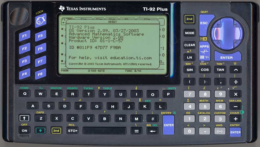 TI-92 plus calculator showing version information